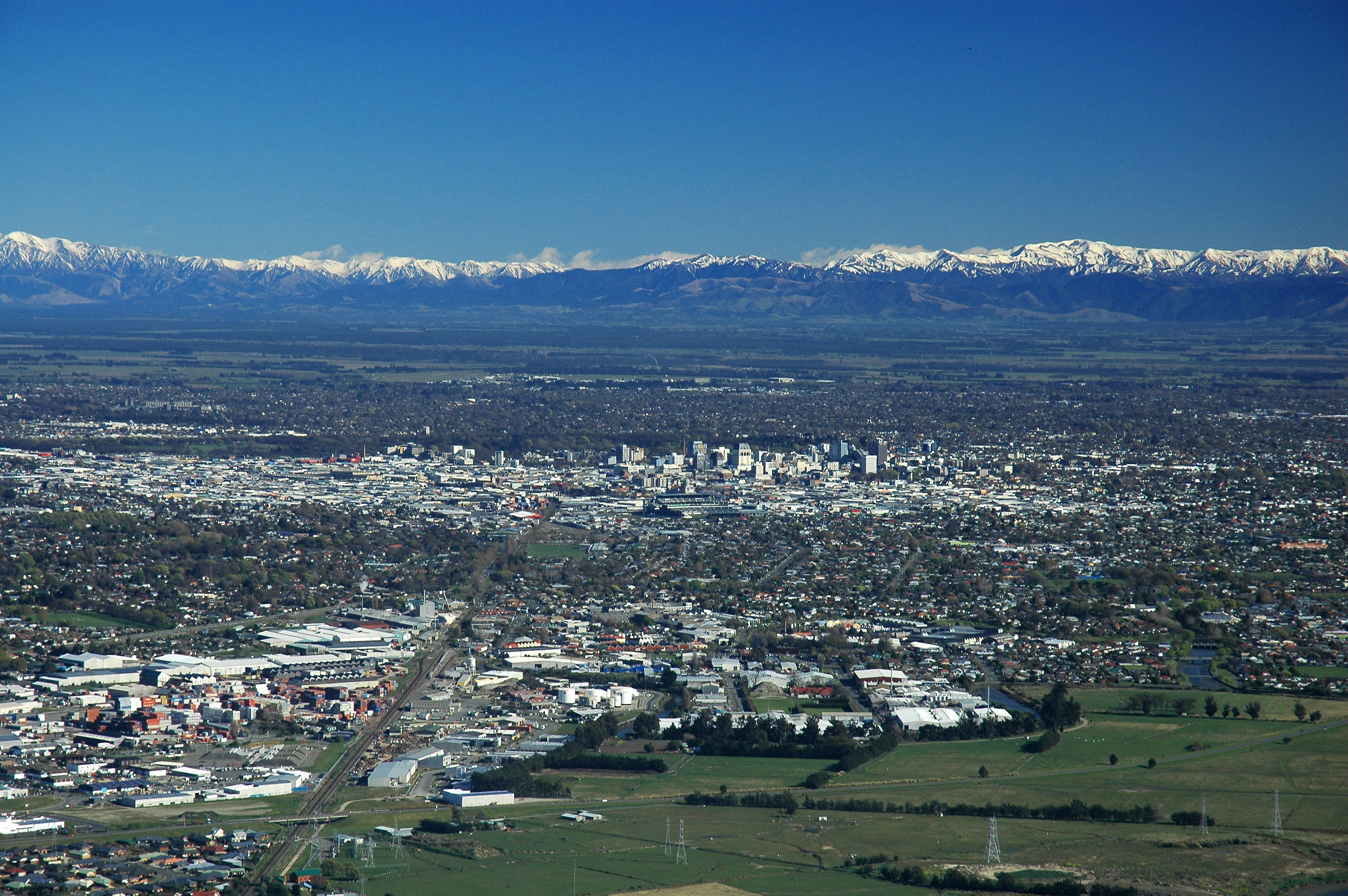 Christchurch City (New Zealand) from the Port Hills.